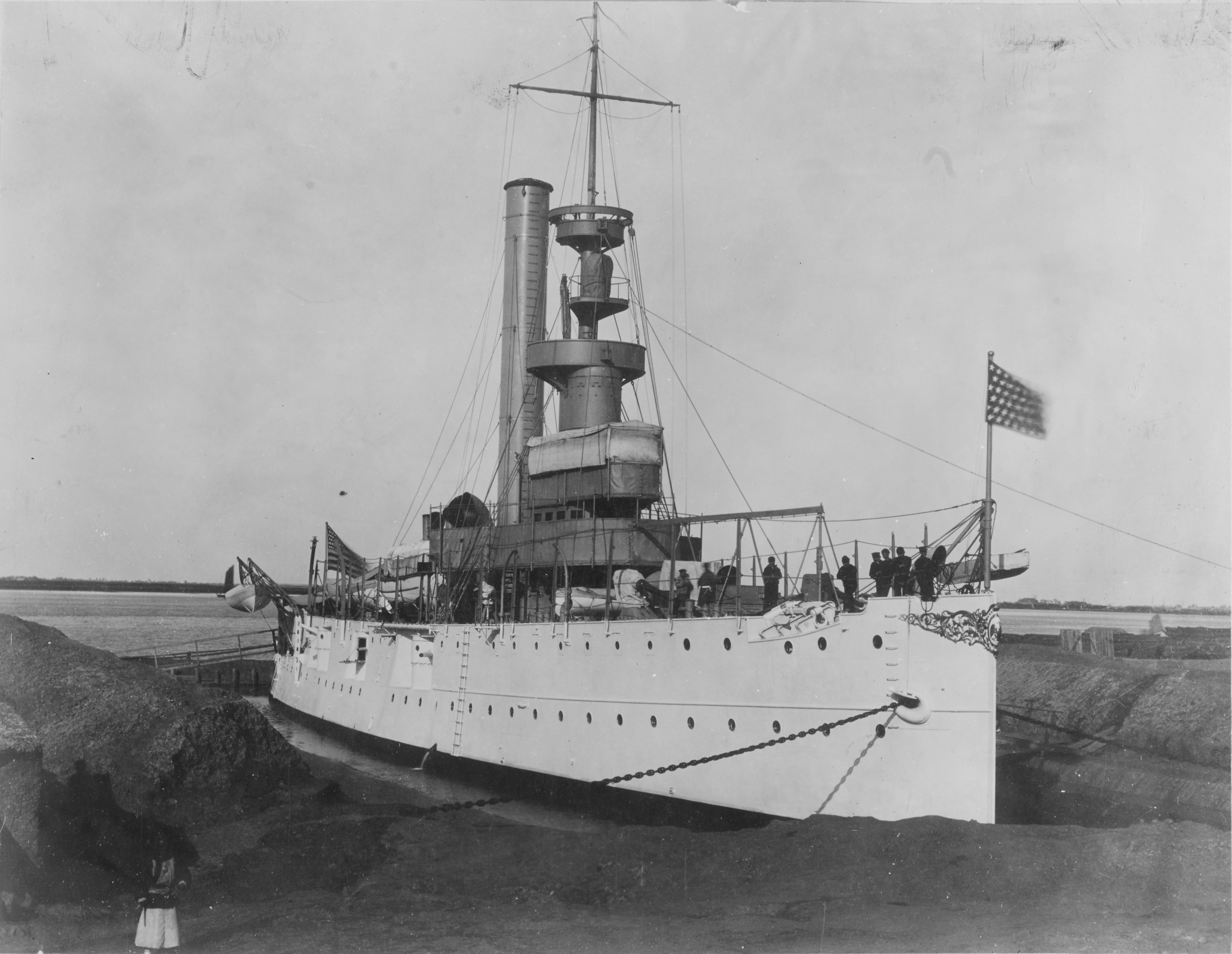 USS Helena in China, photographed during the winter of 1903-1904. Cropped by uploader and saved to jpg format